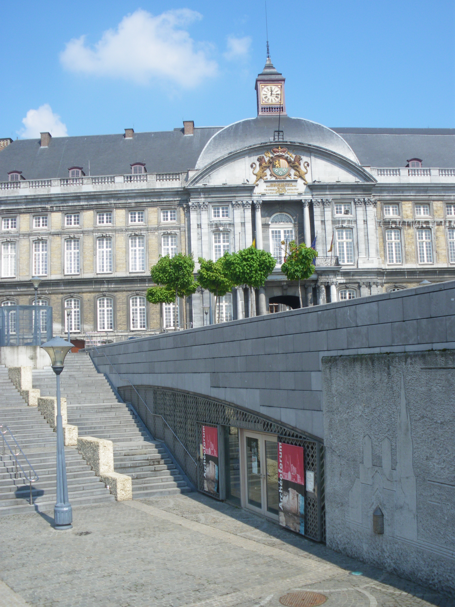 Entry of the Archeoforum Museum in Liège, on St Lambert Square. Rear, the front of the Prince-Bishop Palace